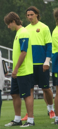 Zlatan Ibrahimović and Maxwell Cabelino Andrade